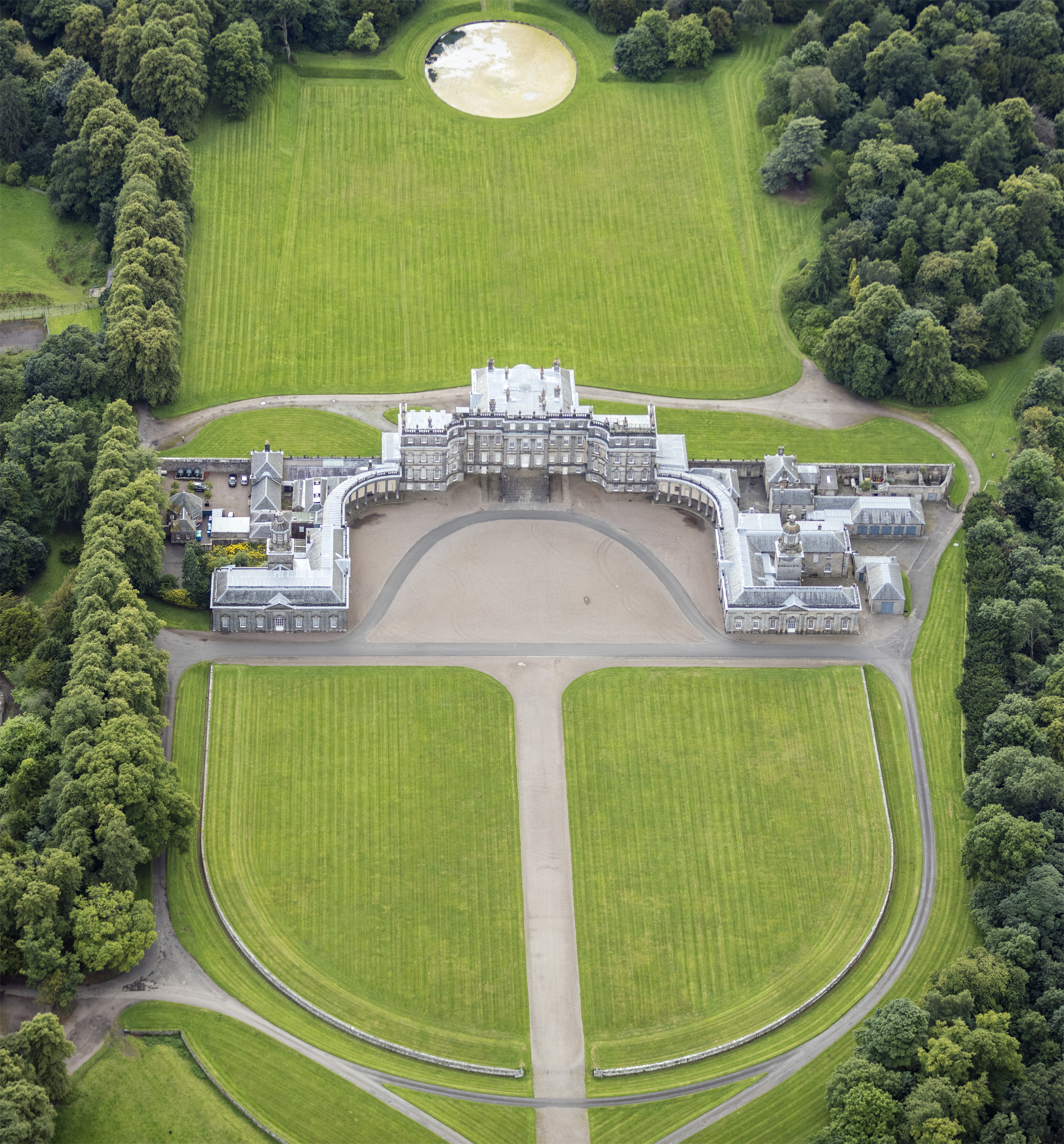 Hopetoun House Wikidata has entry Q1627581 with data related to this item.